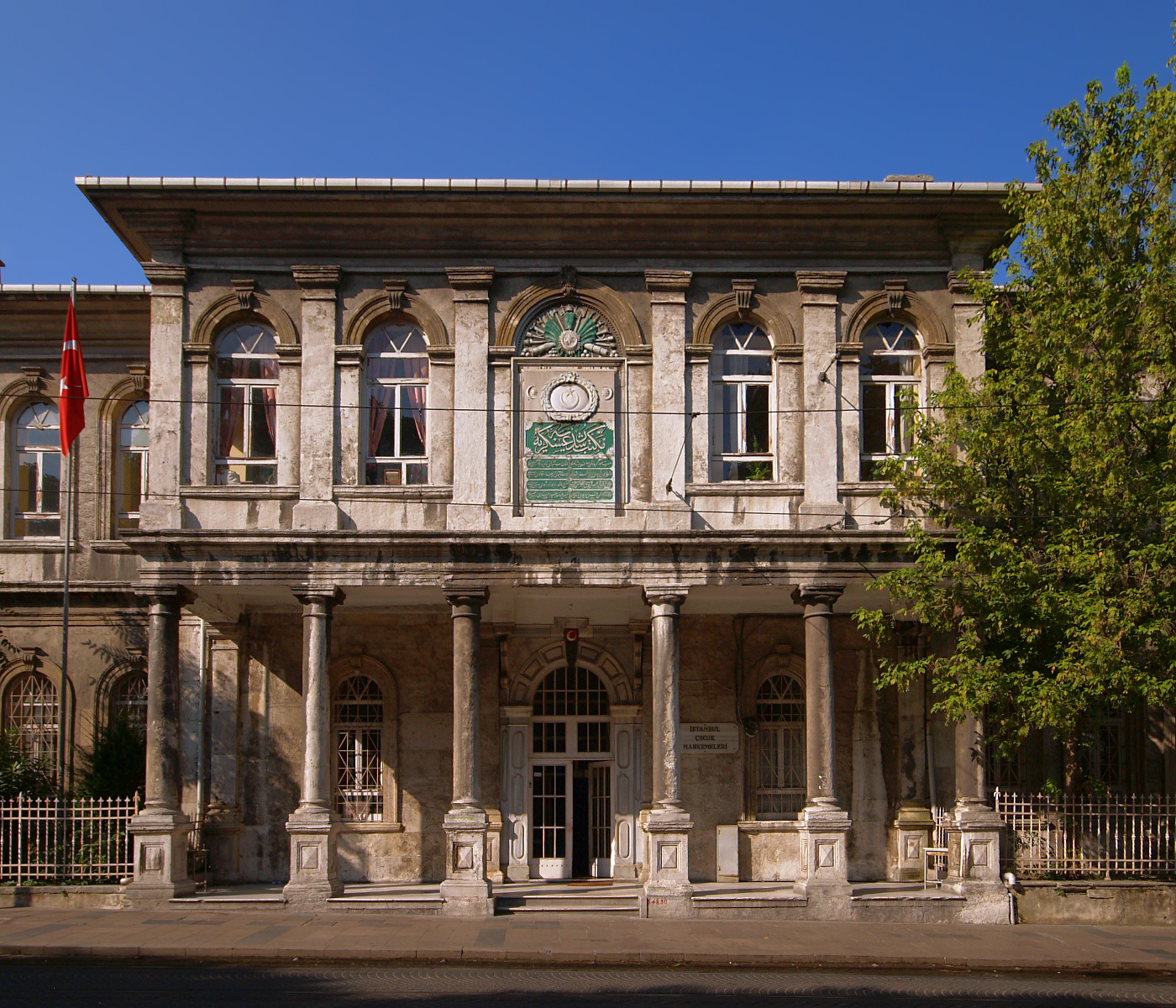 İstanbul Üniversitesi Political Sciences Faculty building which was formerly used as a Juvenile court building, Gülhane, İstanbul.